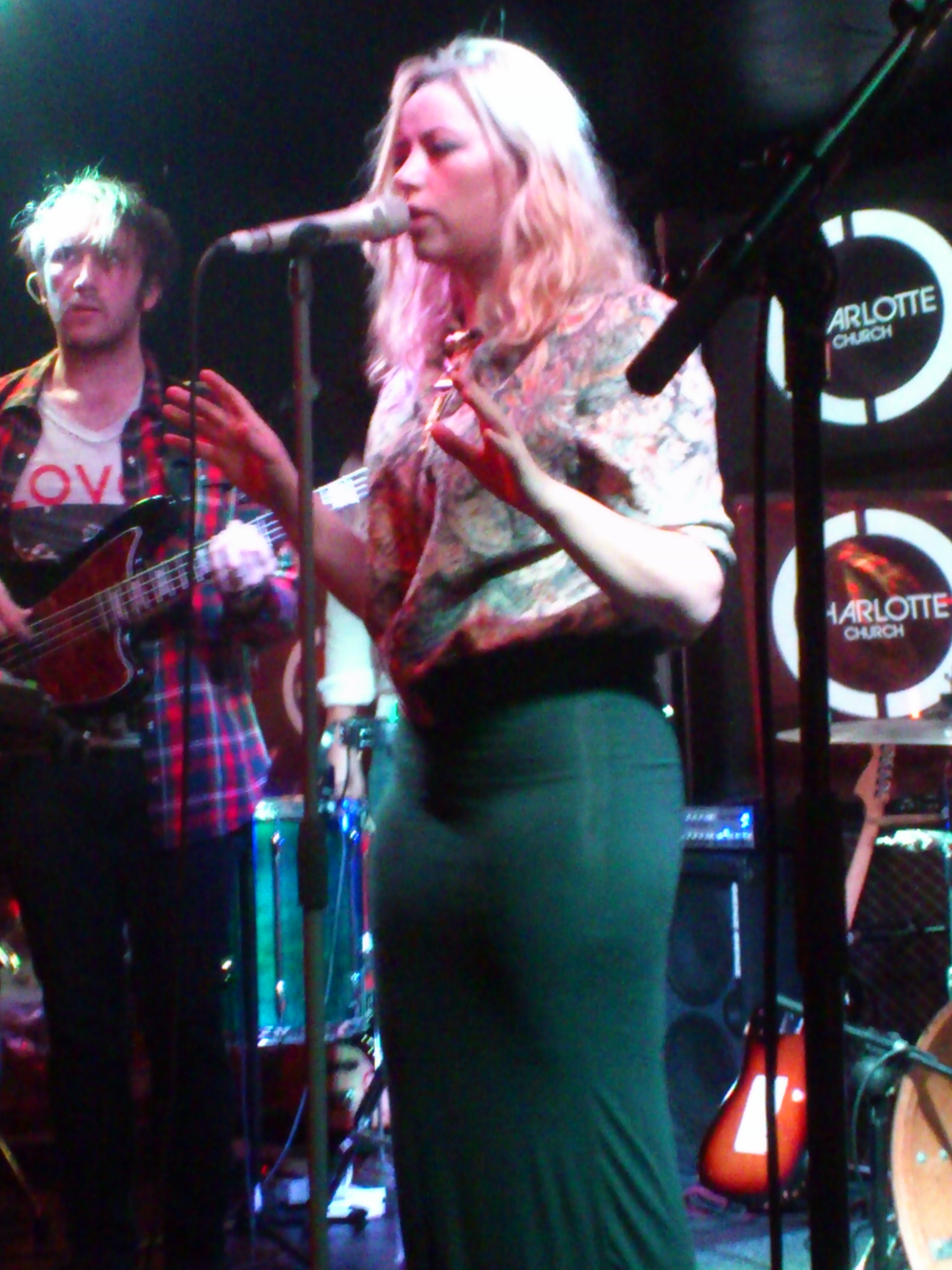 Church performing live 24-10-12 at the Electric Circus, Edinburgh